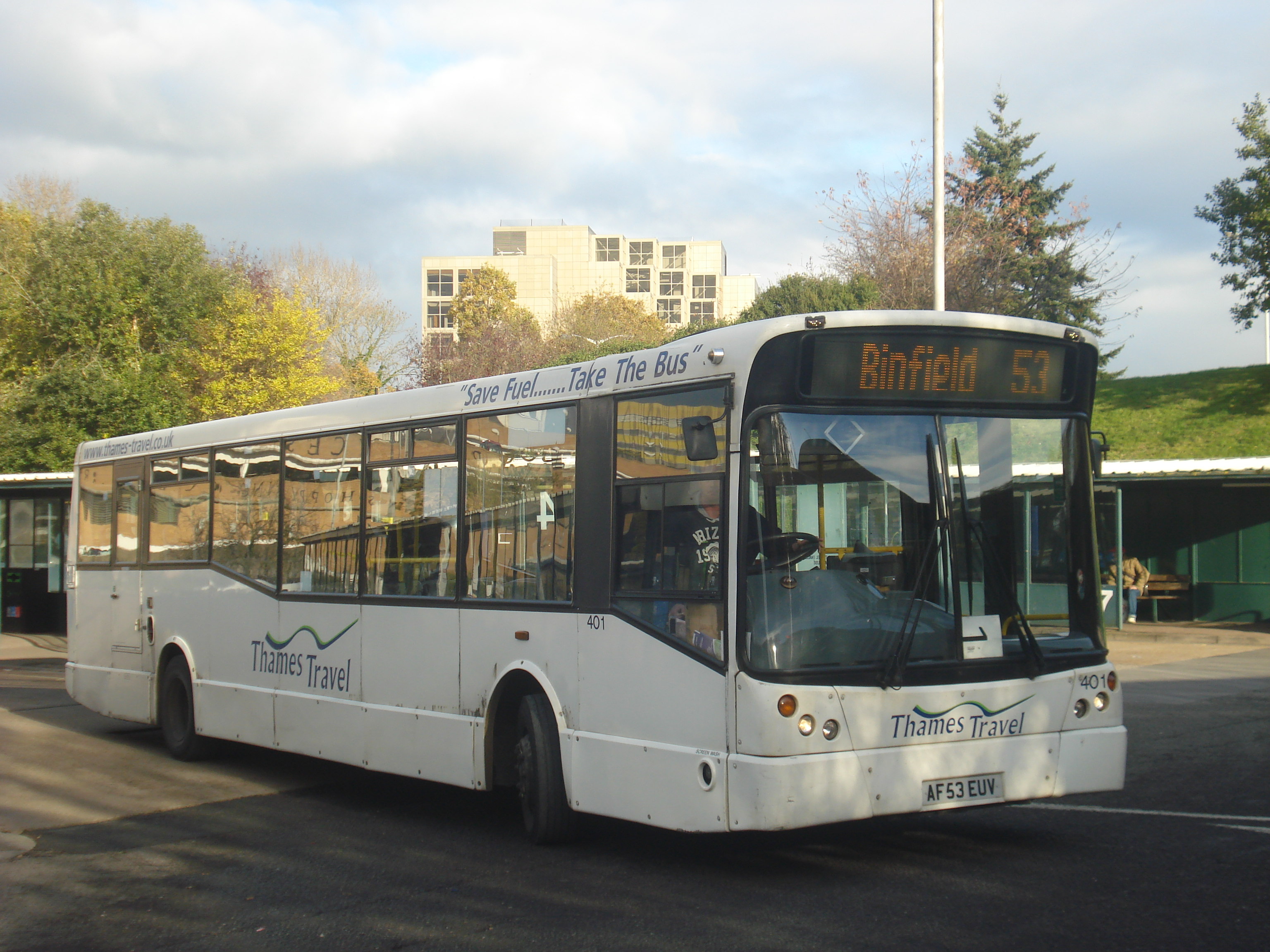 An MCV Stirling bus of Thames Travel, fleet number 401, registration mark AF53 EUV, in Bracknell